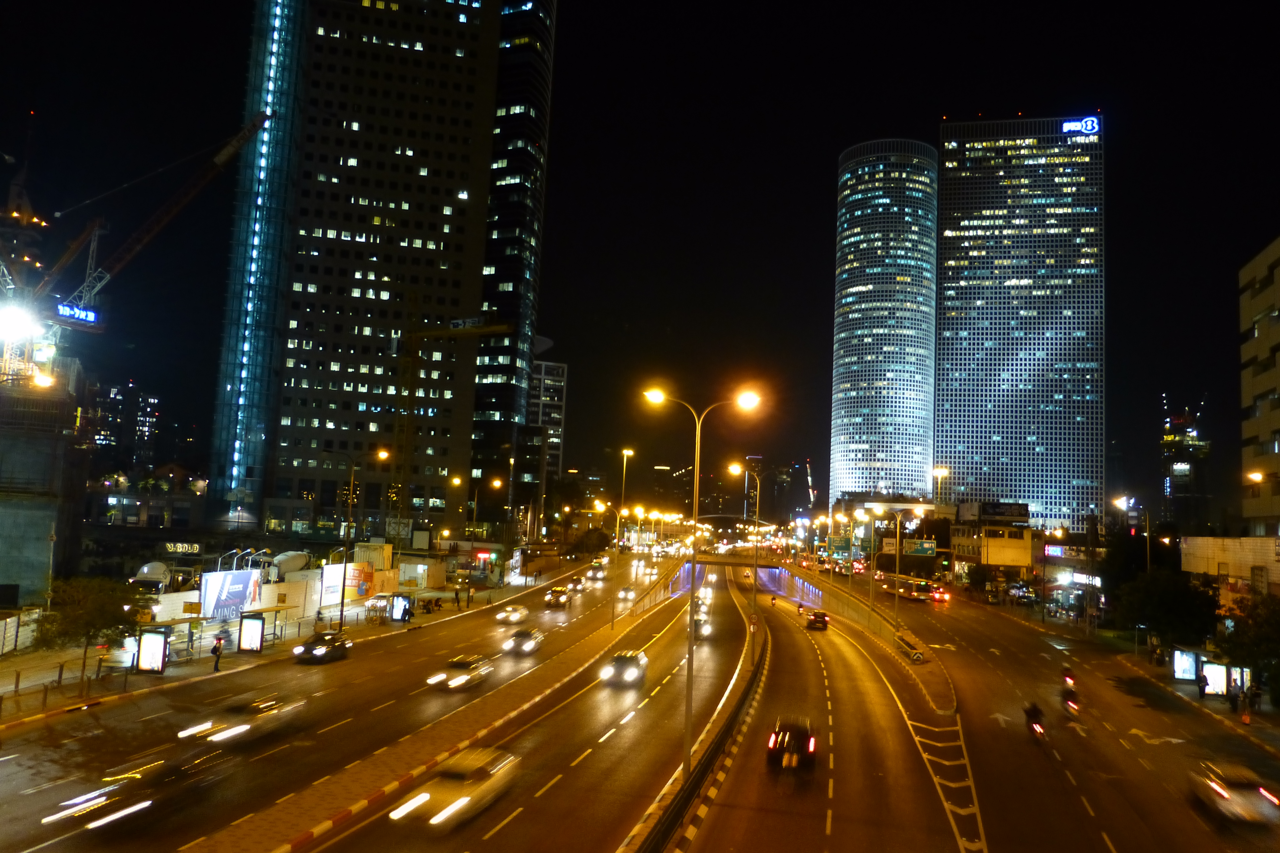 Migdal HaKiriya